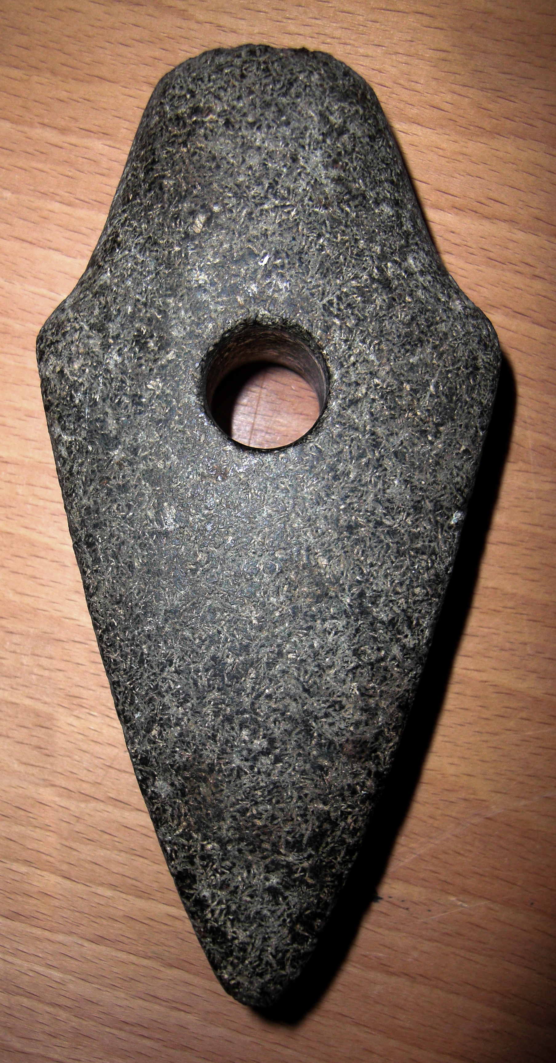 Stone axe from Näsby, Taxinge Parish, Selebo Hundred, Nykvarn Municipality, Stockholm County, Södermanland, Sweden. According to the archaeologists Andreas Oldeberg and Mårten Stenberger this type of axe belongs to the Bronze Age.